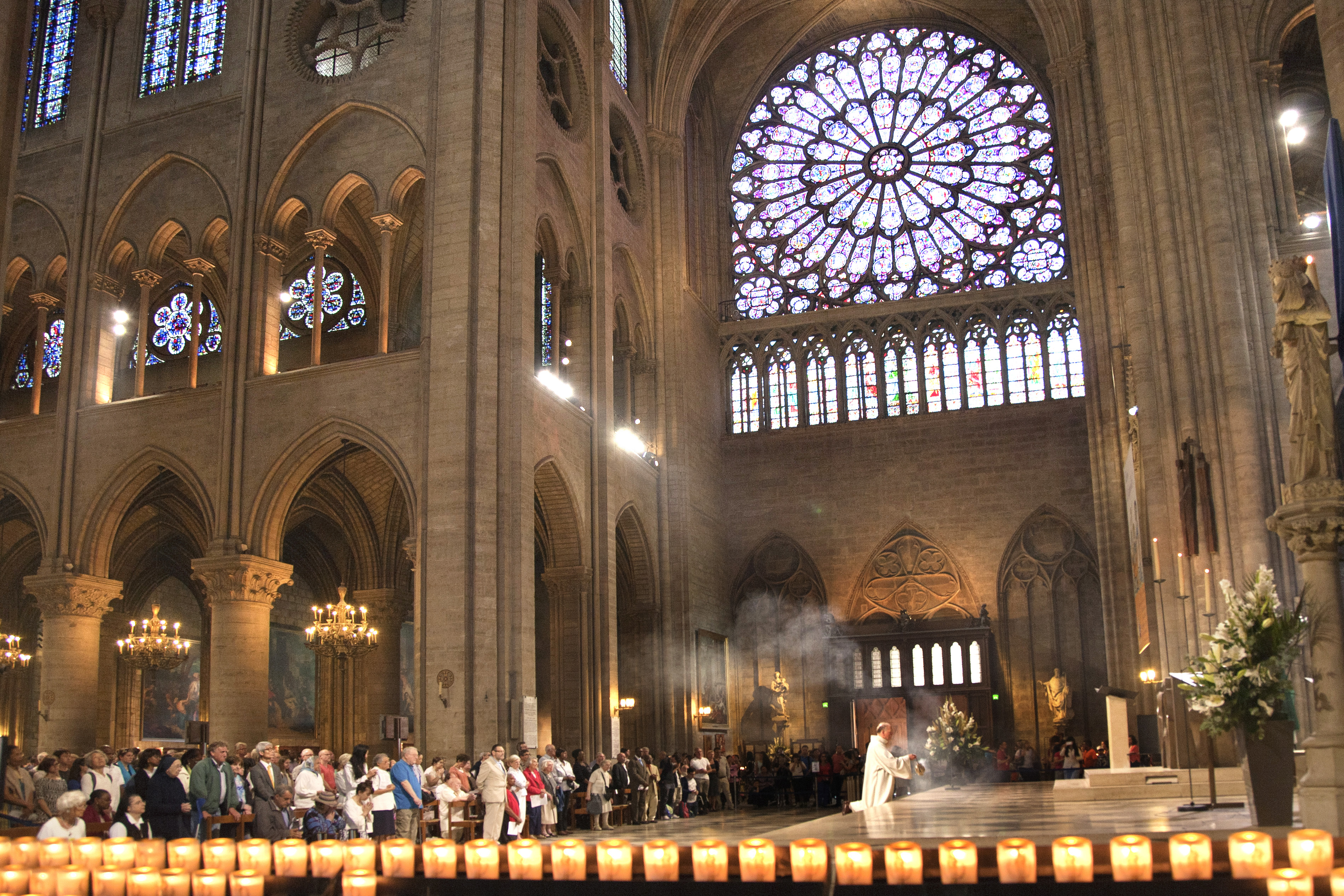 Sunday mass at Notre Dame Cathedral, Paris.